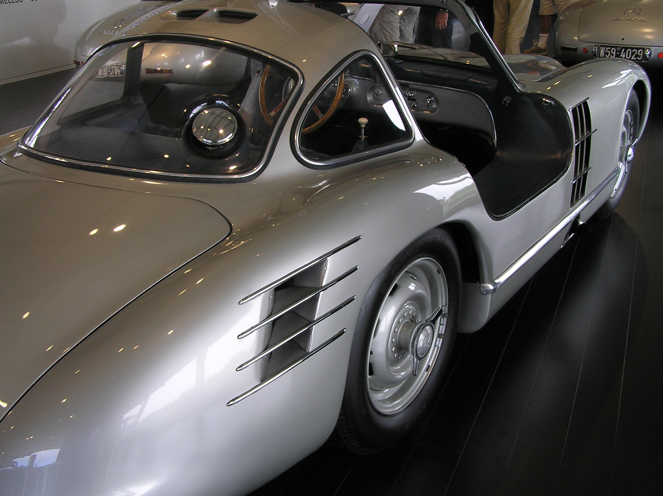 Pebble Beach in 2012. Mercedes-Benz developed a new version for the 1953 racing season by adding fuel injection and 16-inch wheels. The gearbox was installed on the rear axle. Its body was made of Elektron, a magnesium alloy, to reduce the weight by 85 kilograms (187 pounds). However, the car was not used because Mercedes-Benz decided to take part in Formula One from 1954 onward. Later versions revised the body for lower air resistance and did not adopt the transmission arrangement.